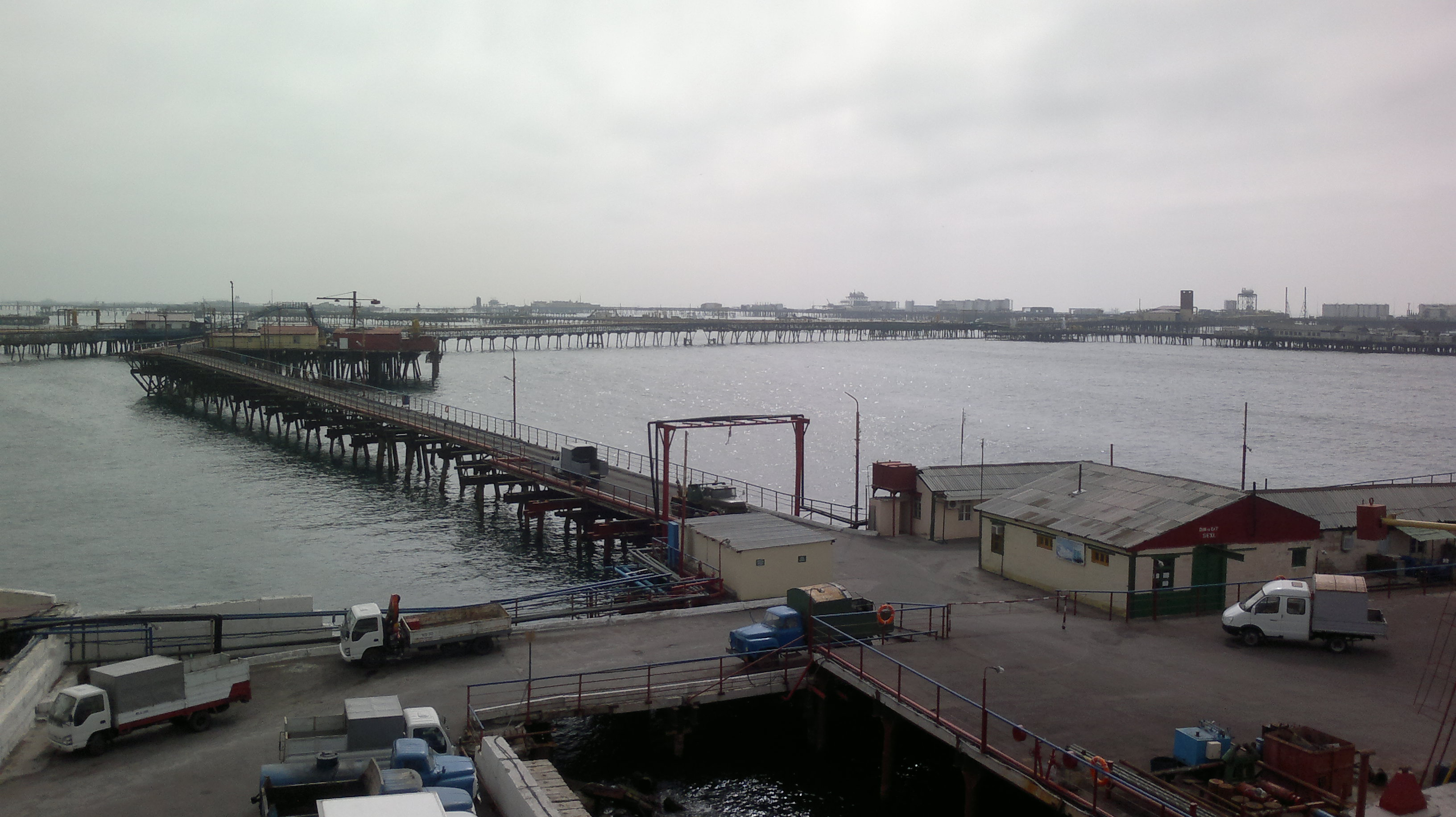 Oil Rocks platform in Caspian Sea (Azerbaijan sector)